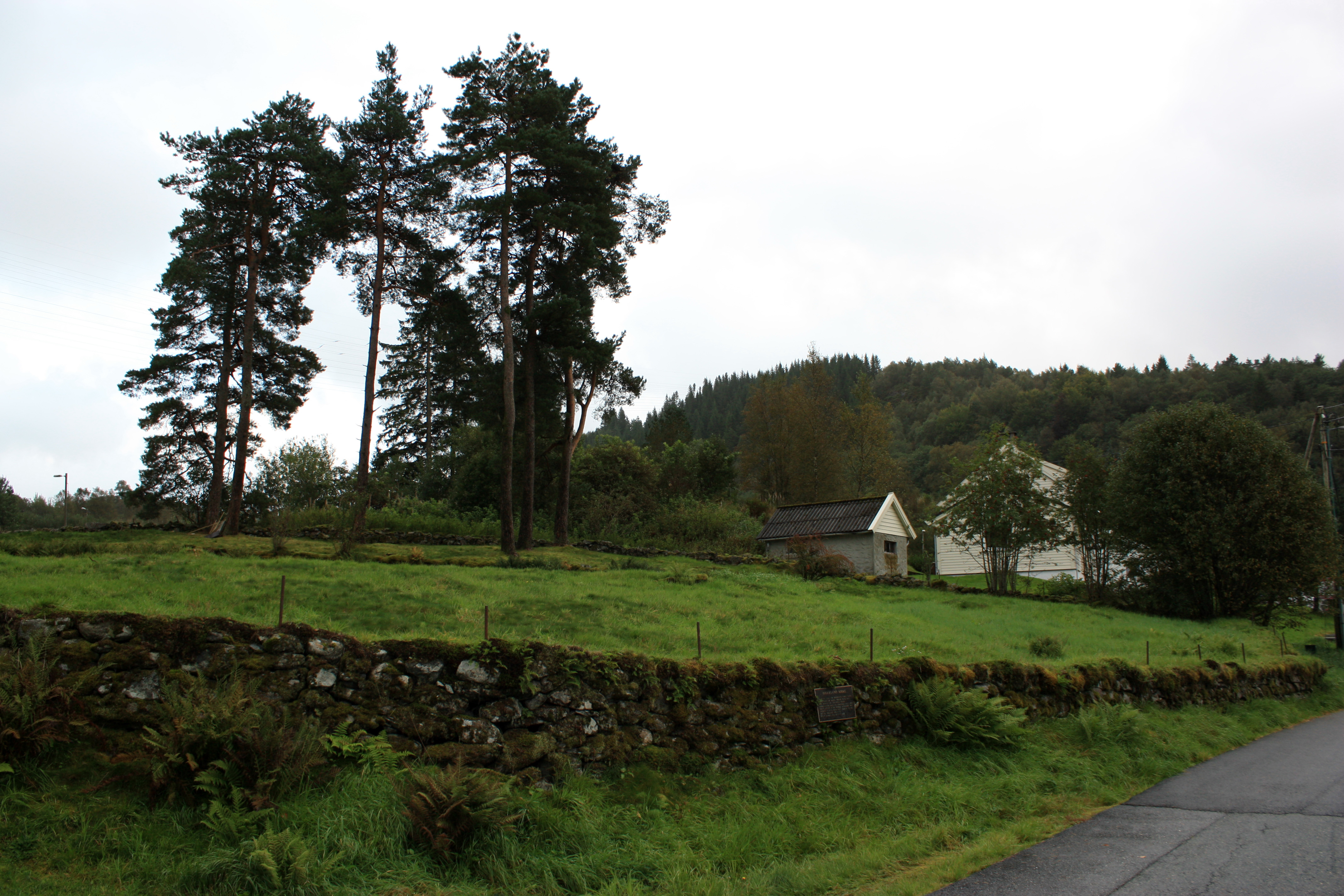 place of the old Birkeland church